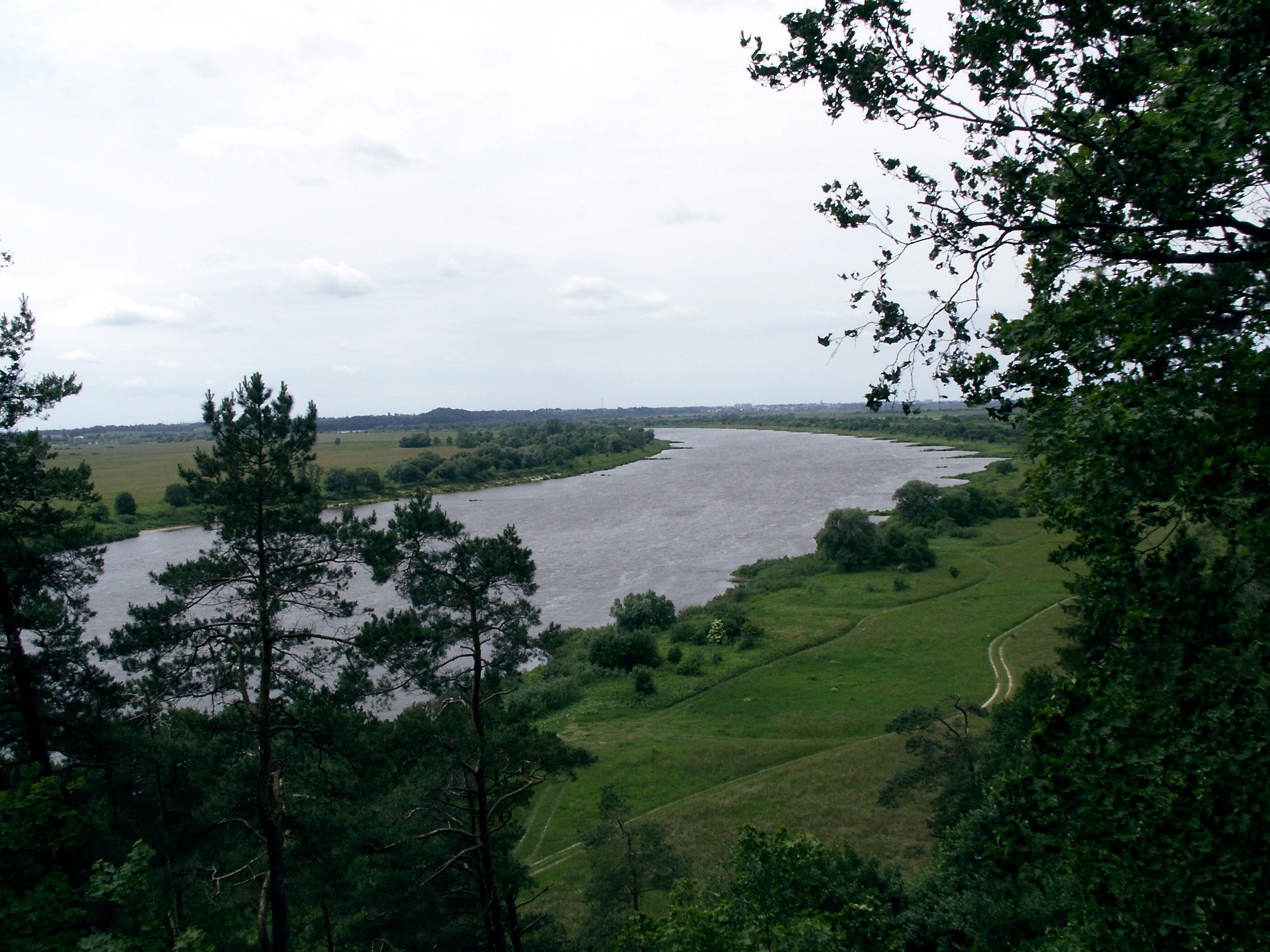 Nemunas near Rambynas hill, Lithuania